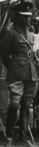 At the signing of an agreement in Kabarole, Toro, Uganda between the British governor,Sir Frederick Crawford and the Omukama of Toro are shown four other kings of Ugandan kingdoms, from left to right: The Omugabe of Ankole, Omukama of Bunyoro, the Kabaka of Buganda, Won Nyaci of Lango